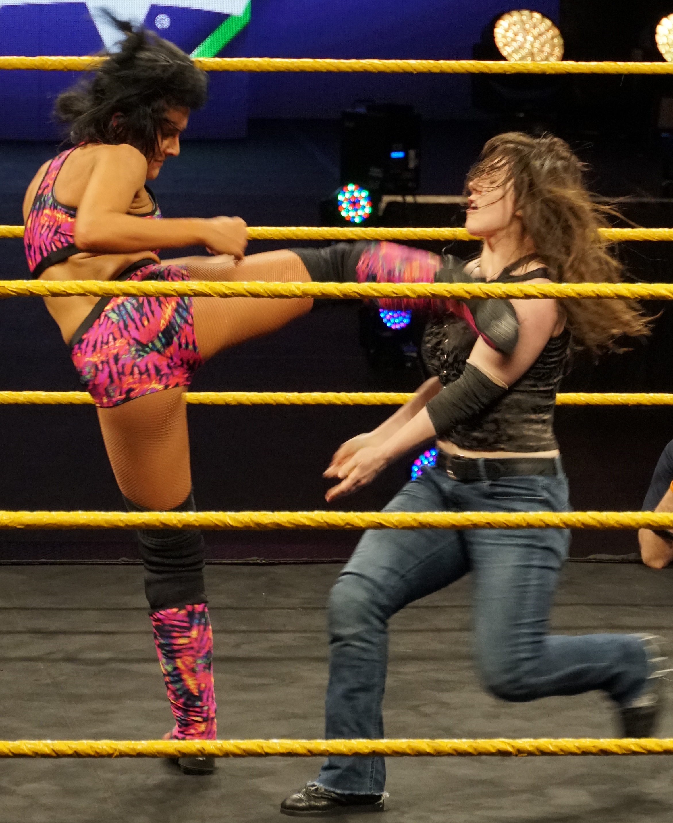 NOLA 2018 - WWE Axxess - Saturday - Dakota Kai Vs Nikki Cross Dakota Kai def. Nikki Cross ( Deux semaines a Nola pour la ville et pour WWE Wrestlemania XXXIV Two weeks Nola for the city and for WWE Wrestlemania XXXIV )